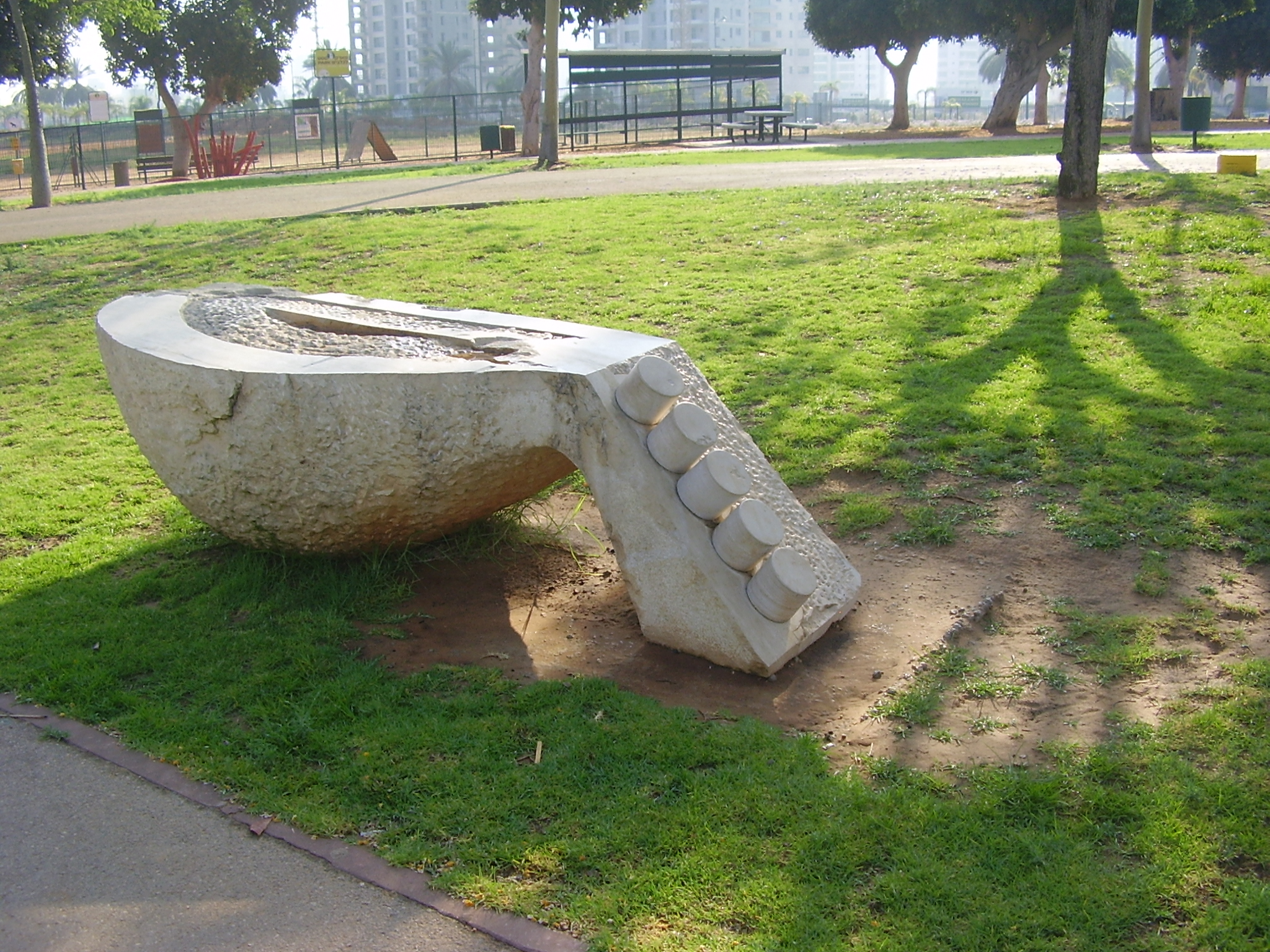 Oud Sculpture by Igor Brown in Petah Tikva, Israel